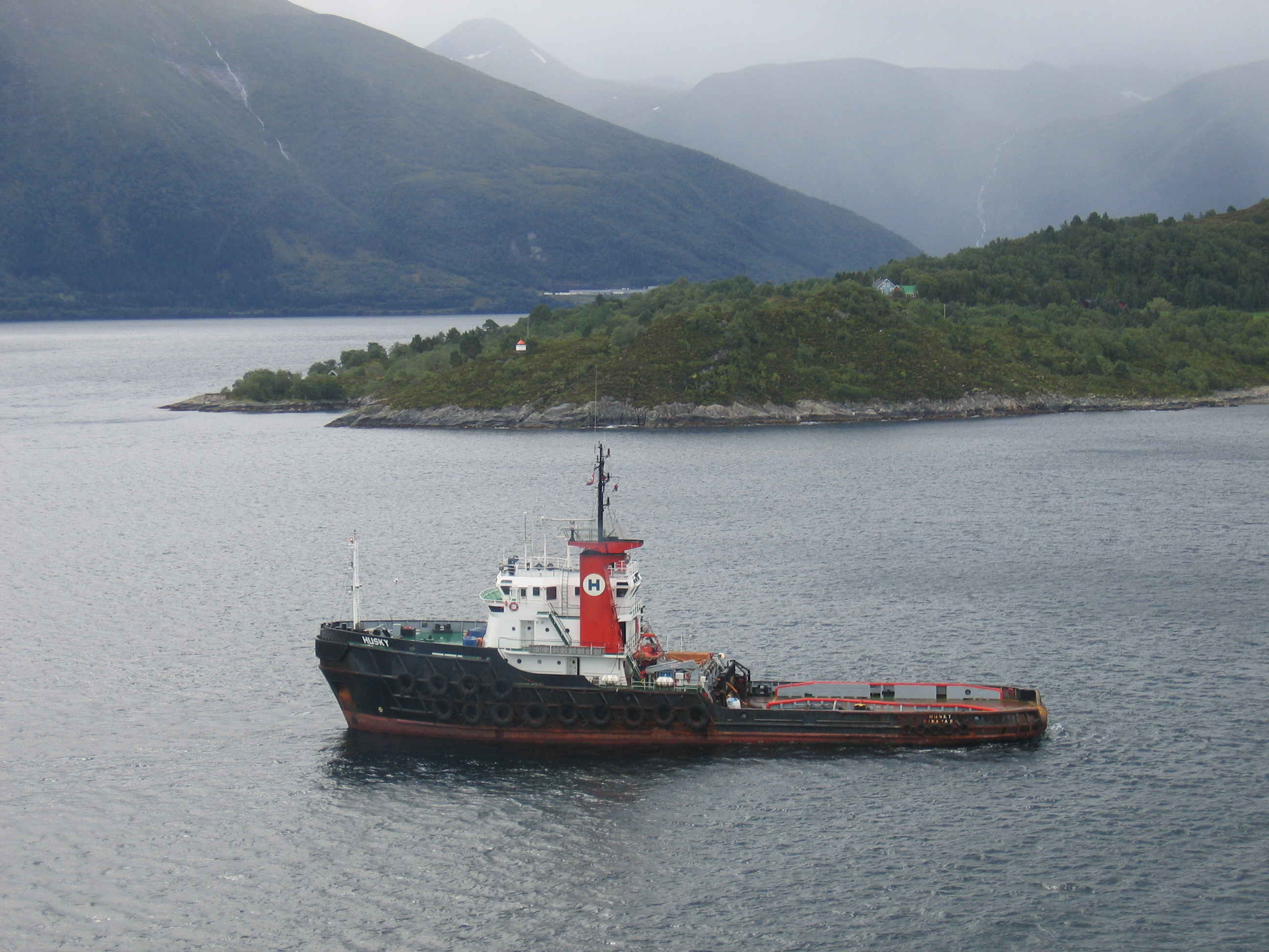 AHT Husky in the Sulla Fjord near Alesund, Norway, in the summer of 2005.